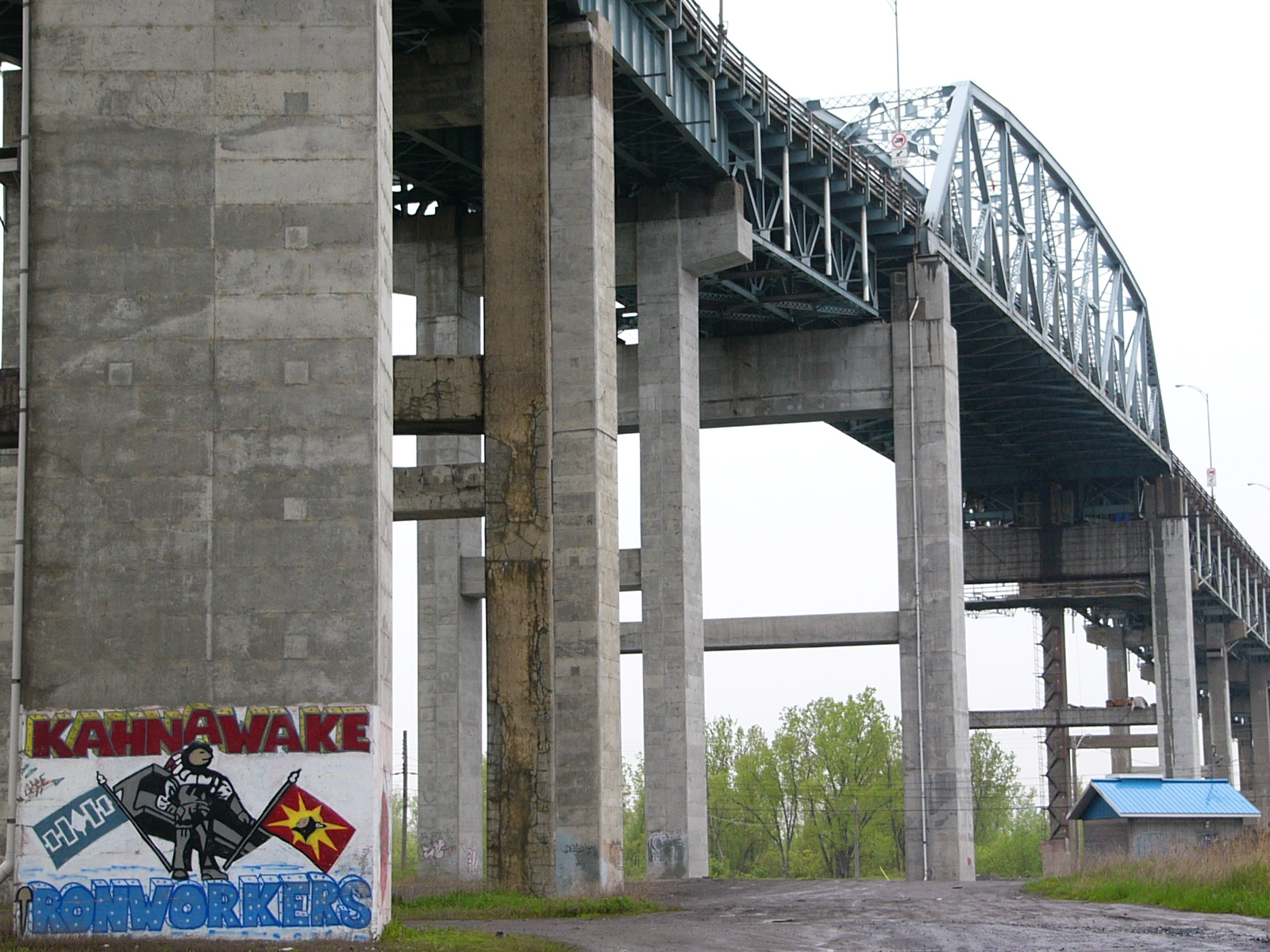 Underneath the Mercier Bridge on the south shore in Kahnawake. Note the Kahnawake Ironworkers flag on the bottom left and the Warrior flag hanging between the first 'V' section of the truss.